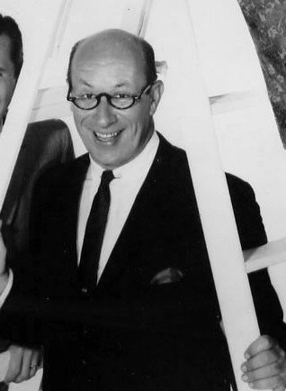 Richard Deacon in a photo of the main cast of The Dick Van Dyke Show.